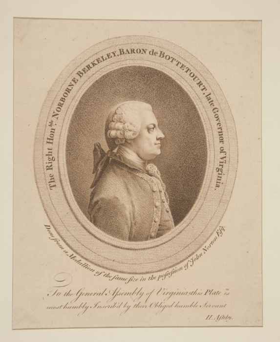 "The Right Honorable Norborne Berkeley, Baron de Bottetourt, late Governor of Virginia," stipple engraving, printed in sepia, taken from a medallion, by an unknown artist, 1774. Courtesy of the Mabel Brady Garvan Collection, Yale University Art Gallery, Yale University, New Haven, Conn.